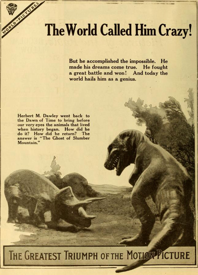 Advertisement in Moving Picture World, April 1919, for the film The Ghost of Slumber Mountain (1918).